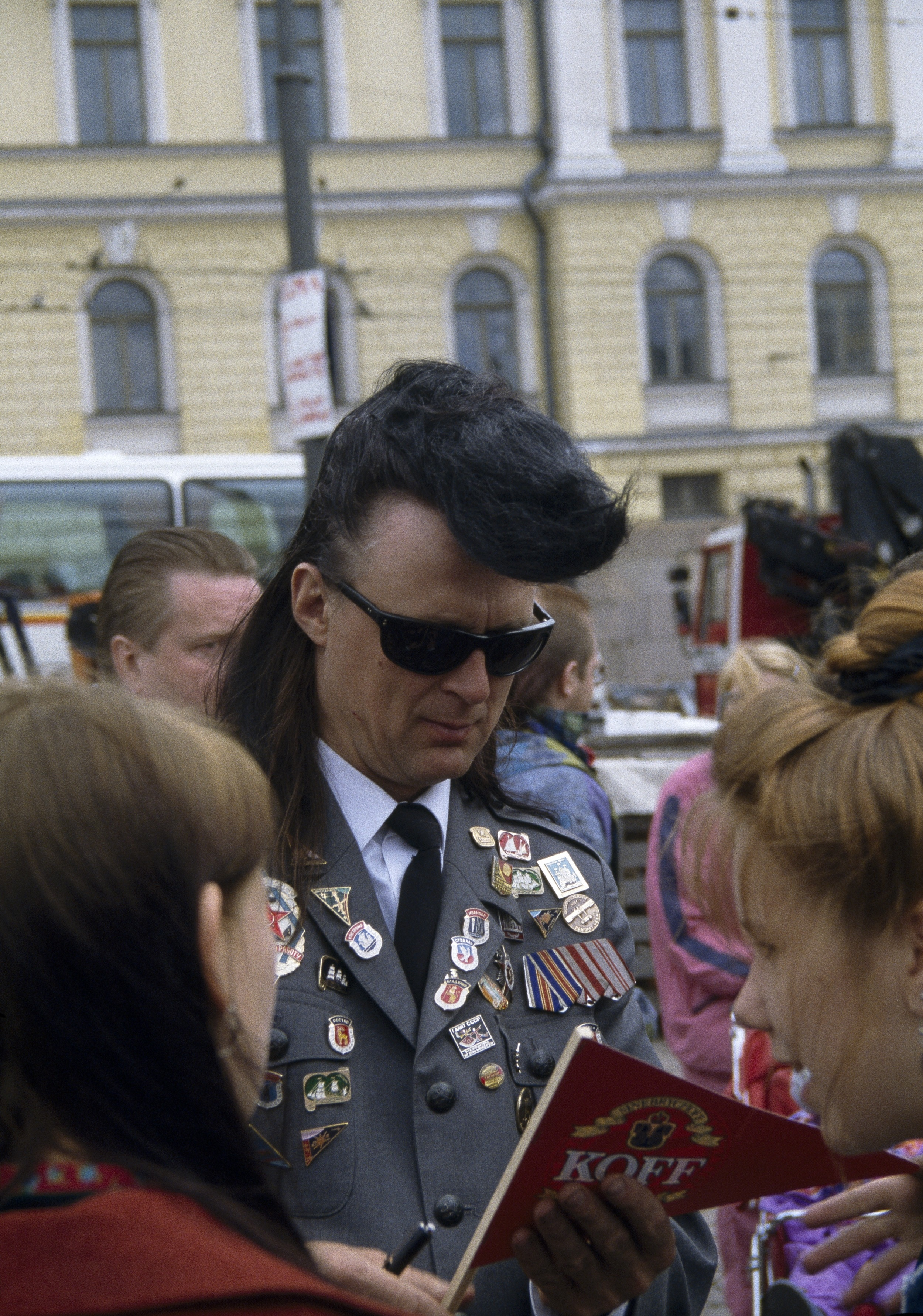 Photograph of Sakke Järvenpää of the Leningrad Cowboys, during concert rehearsals at Helsinki Senate Square.